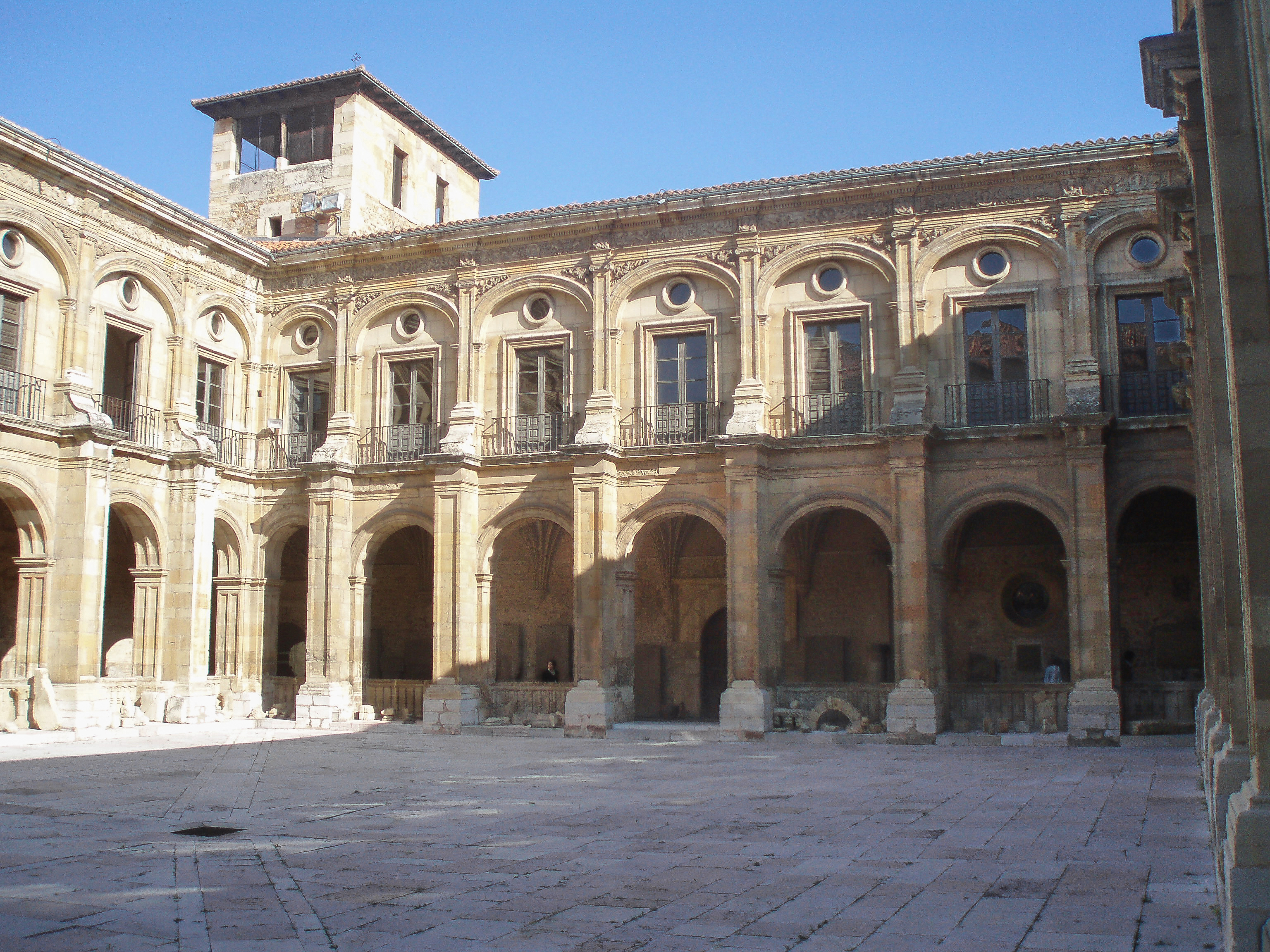 Cloister of Royal Collegiate of San Isidoro of Leon. (Spain).